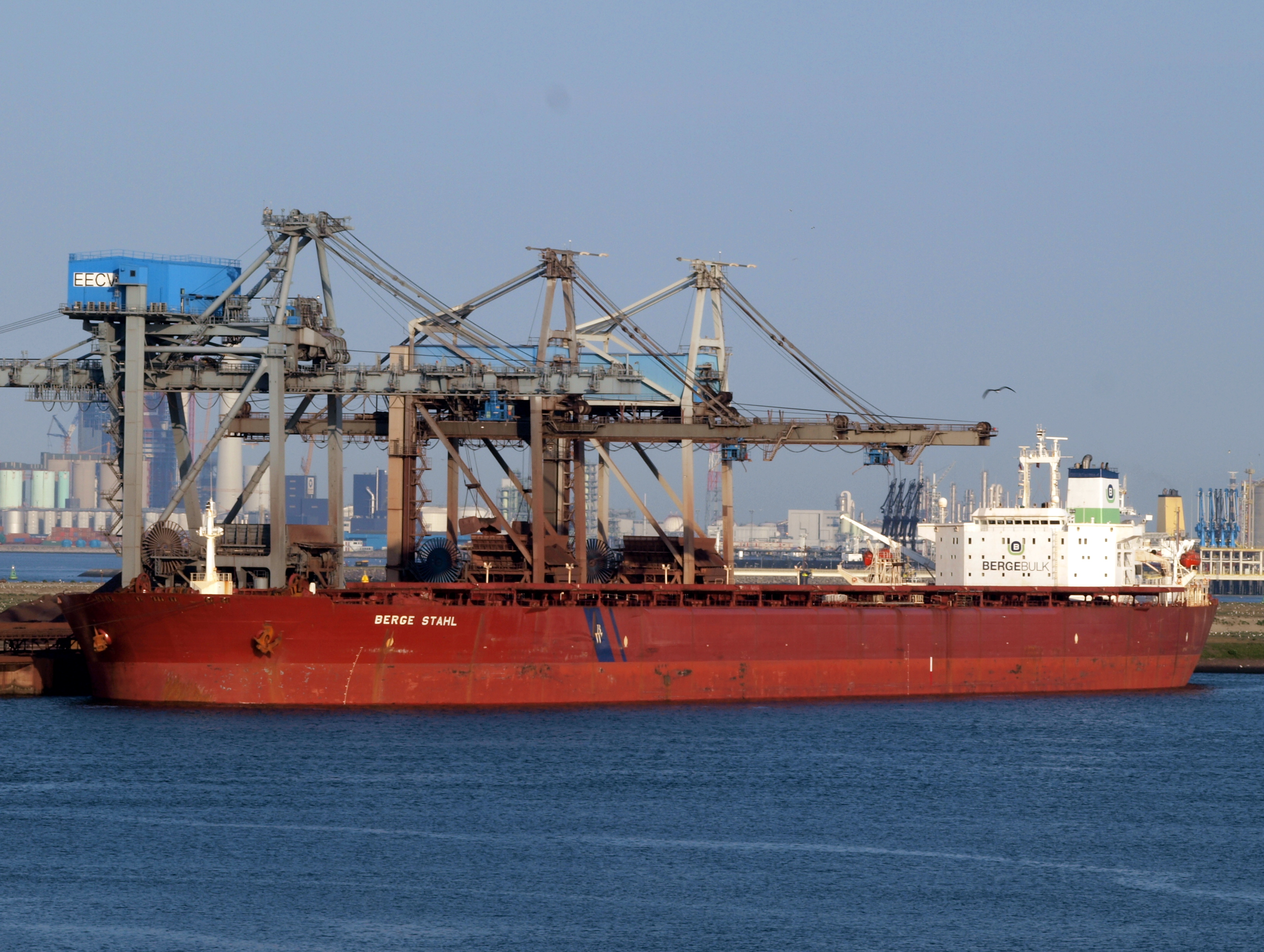 Back in Rotterdam after reviced in China, i believe.